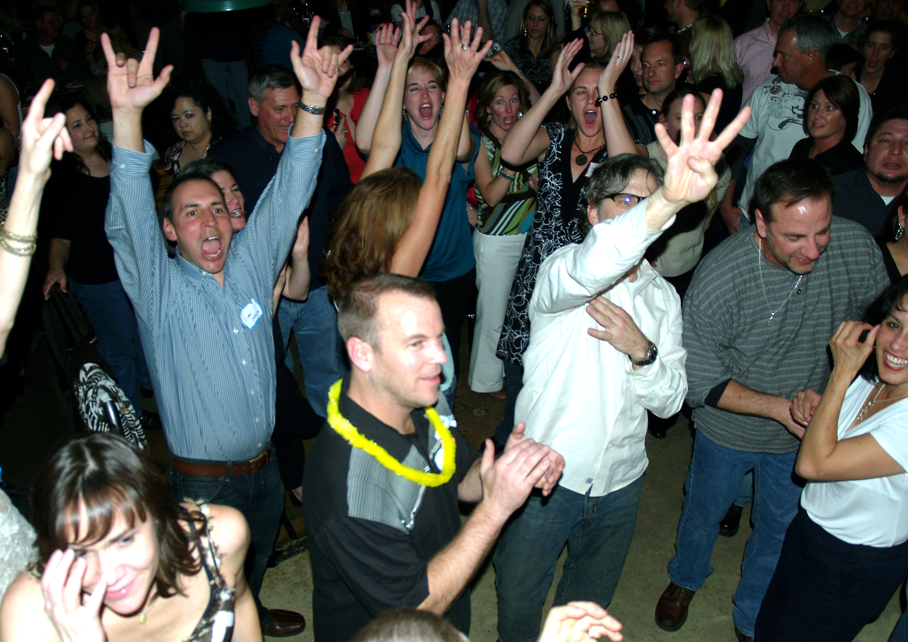 A crowd in Colorado Springs, Colorado, enthusiastically cheers on a live band at the downtown club Southside Johnny's.